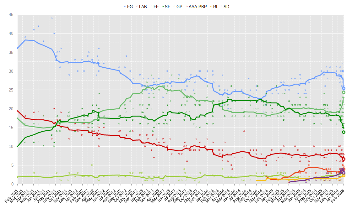 Evolution of voting estimations in Irish opinion polling since the 25 February 2011 general election and during the run up to the 26 February 2016 general election. Points represent results of individual polls. Trend lines represent exponentially weighted moving averages.